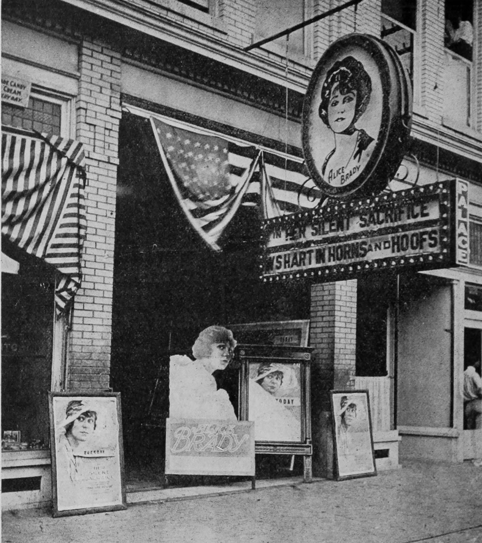 Theater showing Her Silent Sacrifice and other films in about 1918